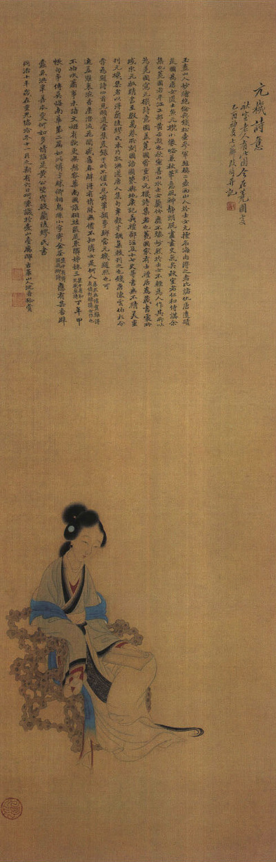 The drawing of Yu Xuan ji, poet of the Tang Dynasty.